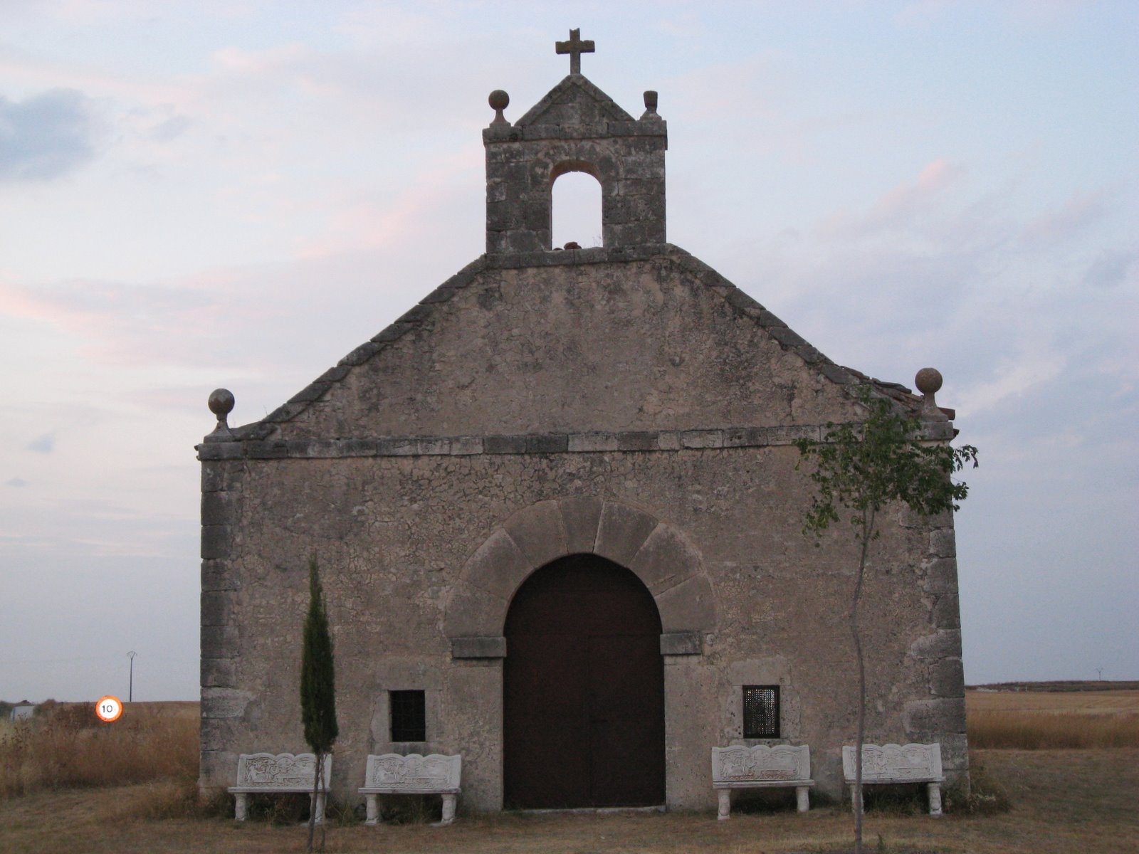 Saint Roch Hermitage